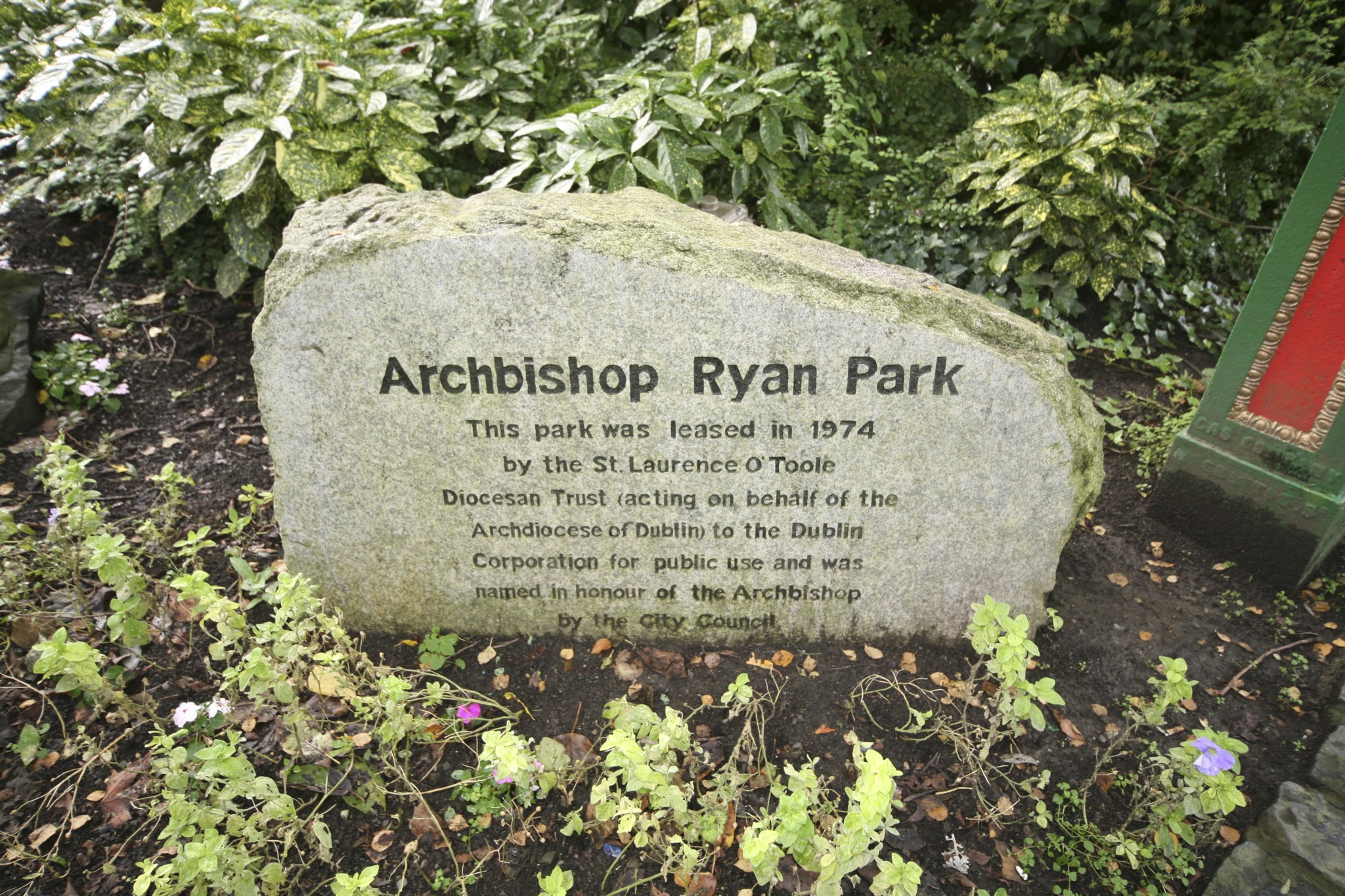 Merrion Square, Archbishop Ryan Park, Dublin. – The park in the square is now known as Archbishop Ryan Park. The square was leased to the Catholic Archdiocese of Dublin by the Pembroke Estate in 1930 to permit the building of a Cathedral on the site. Despite efforts over the next 20 years to advance the project, no progress was made and the site was transferred to the city of Dublin in 1974. Now managed by Dublin City Council, it contains a statue of Oscar Wilde, who resided in No 1, Merrion Square from 1855 to 1876, many other sculptures and a collection of old Dublin lamp standards.